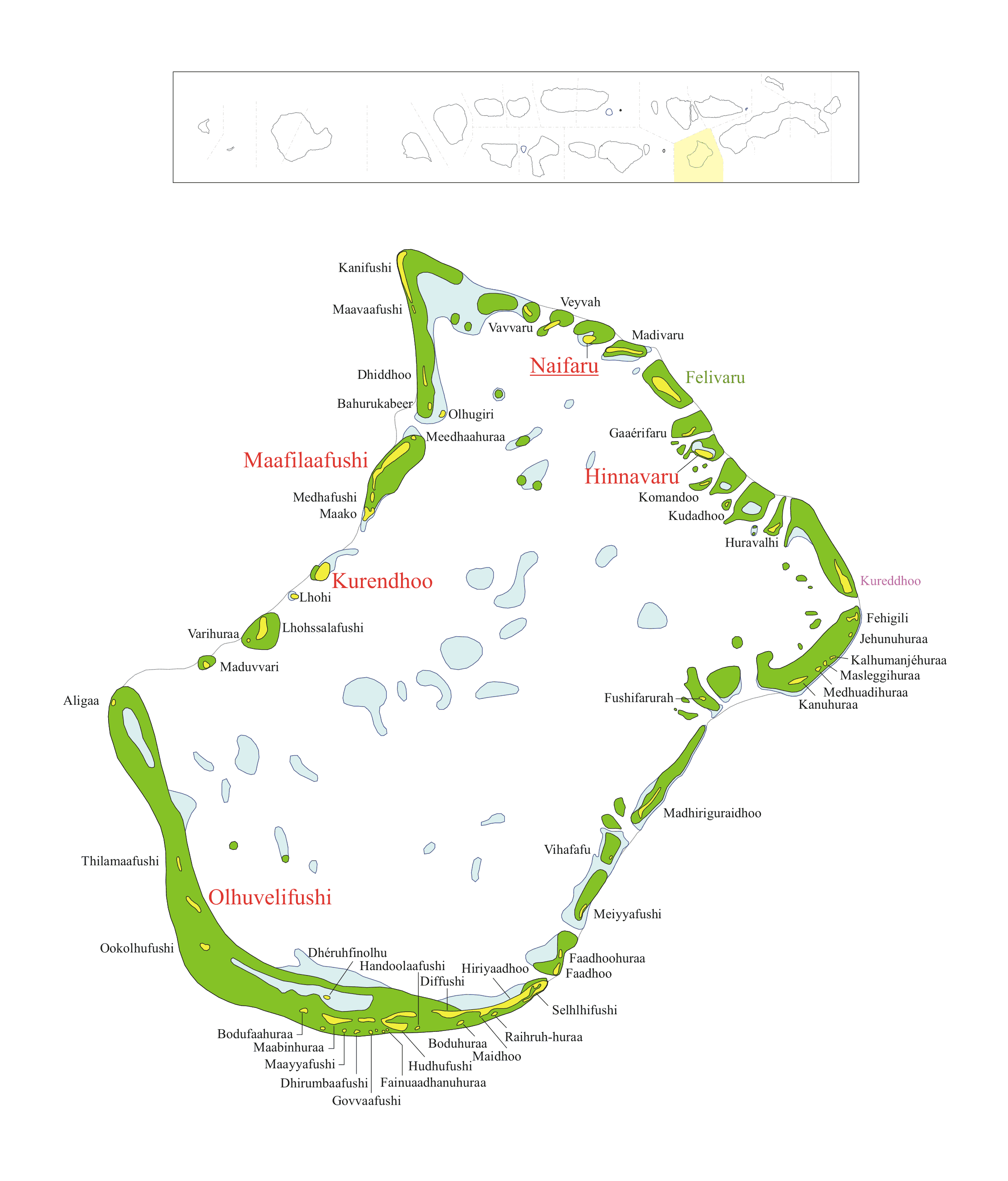 Summary Map of Alif_Alif_Atoll Map originally vector'ed by Hassan Waheed, Aabaadhuge of Thinadhoo island. Note: This section of map was extracted and its text was romanized by Oblivious. Special assitance by Waddey and Zuru Converted to PNG by helix84 source: Image:Alif_Alif_Atoll.jpg